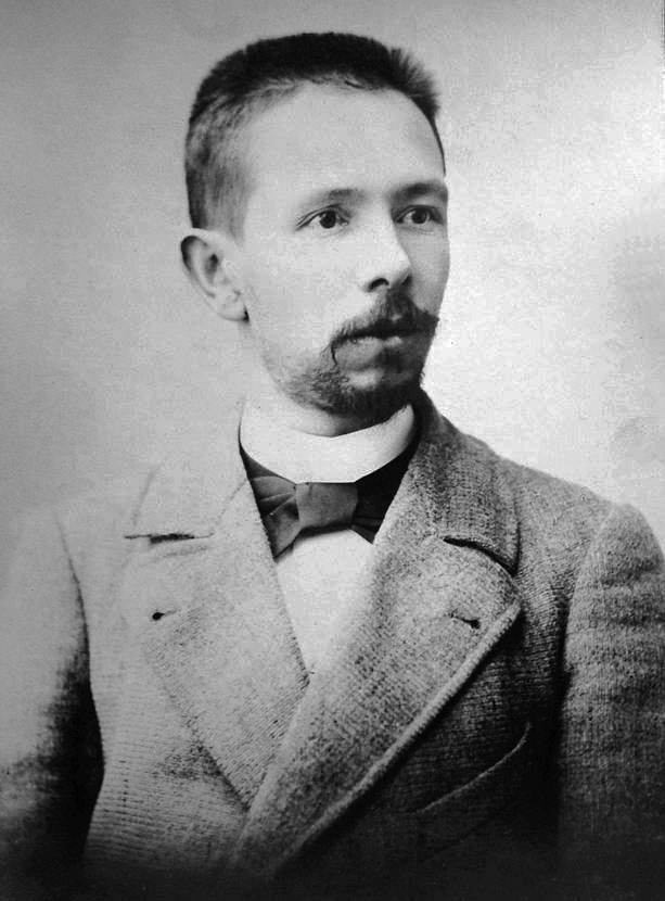 russian composer Vassili Kalinnikov